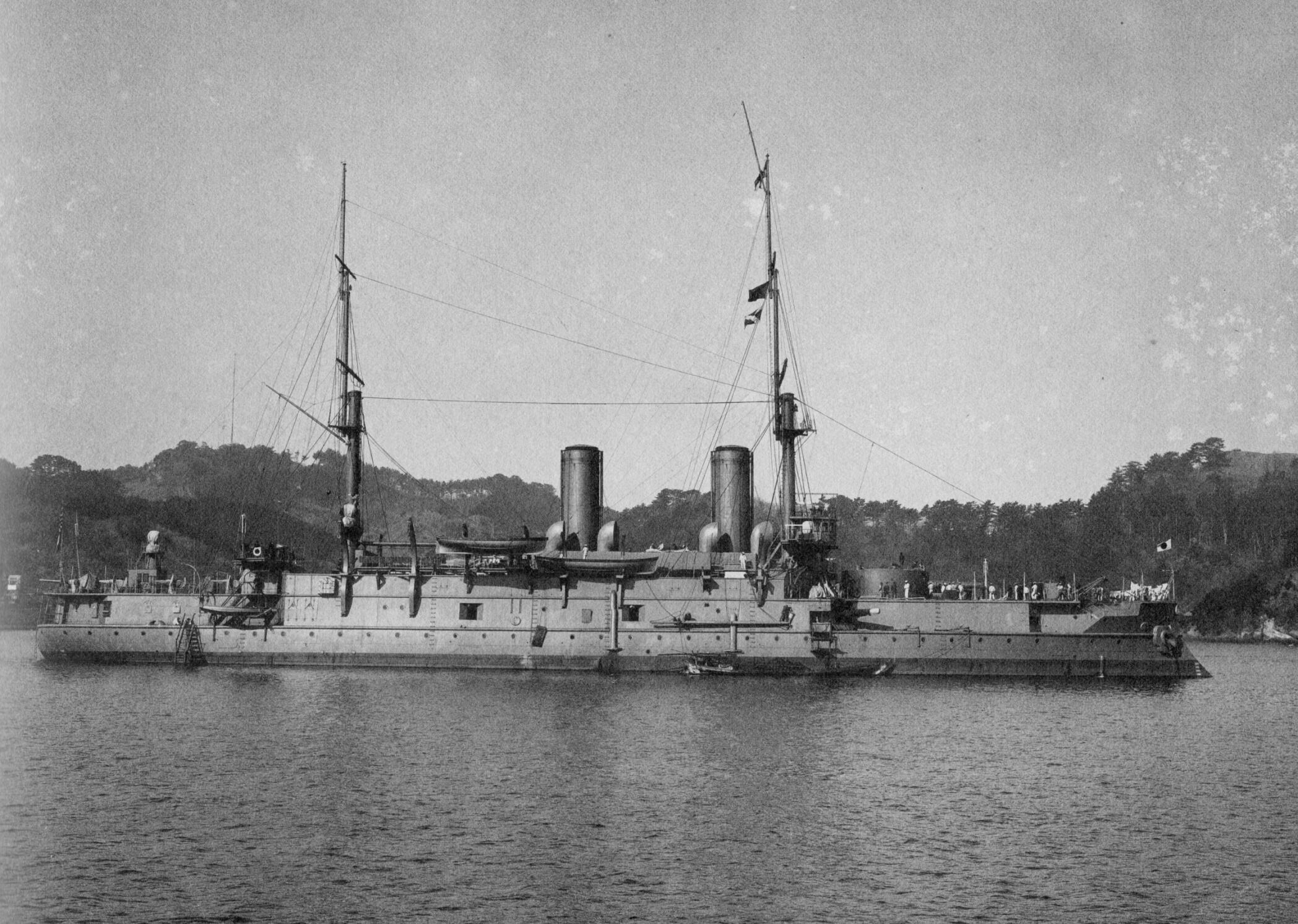 Imperial Japanese battleship Iki at Yokosuka, 12 February 1906.